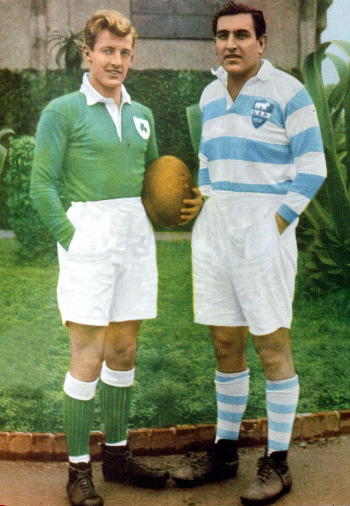 W.J. Hewitt (Ireland) and Miguel A. Sarandón (Argentina) posing together in Buenos Aires during the Ireland national team tour to South America.